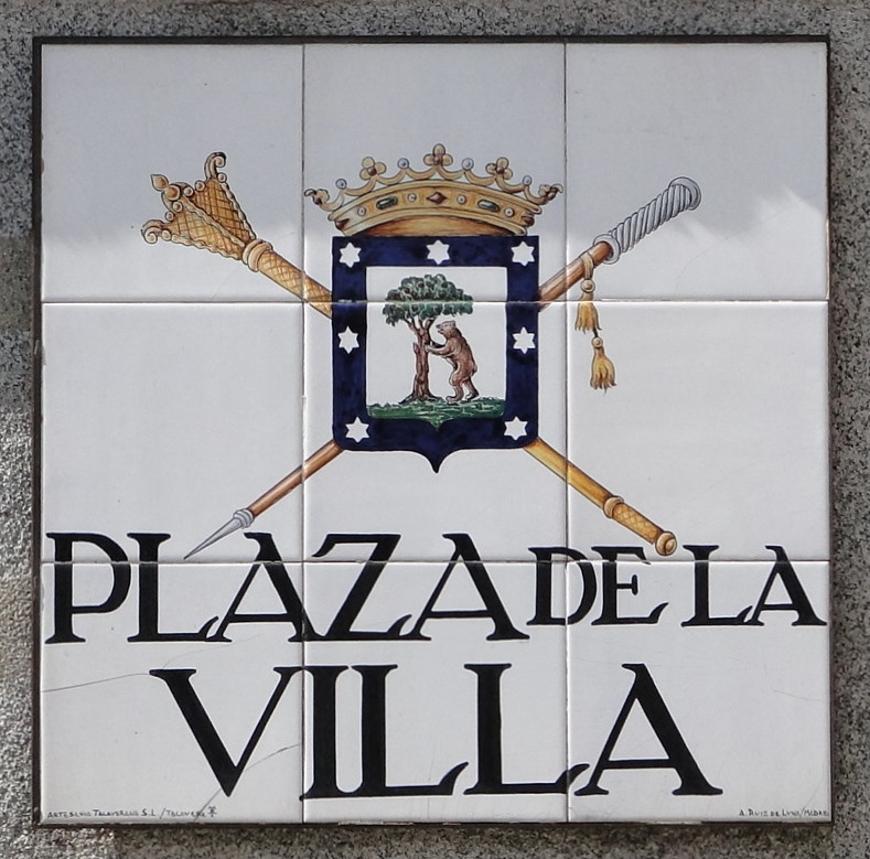 Sign of Plaza de la Villa, Madrid, Spain